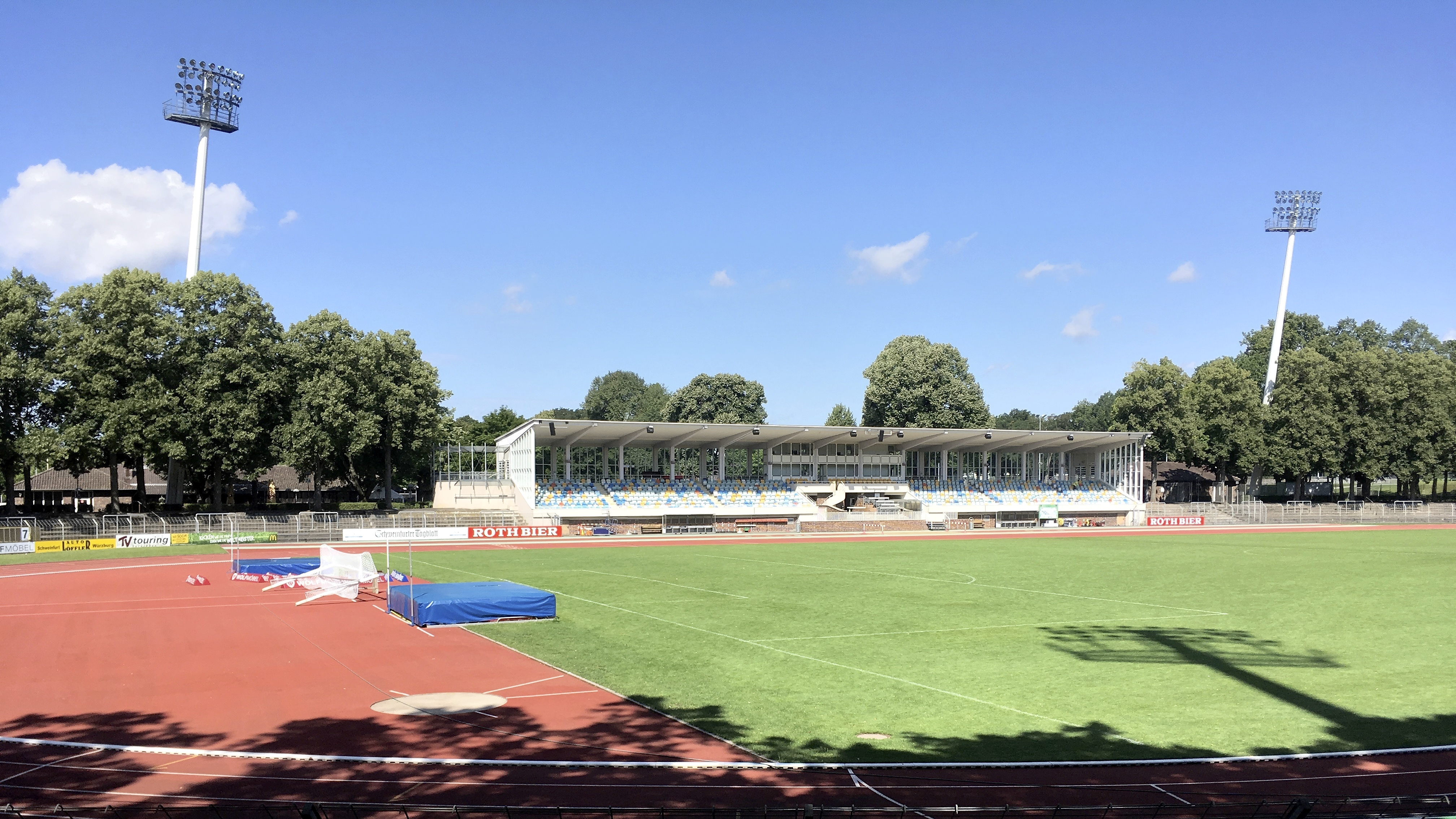 Willy-Sachs-Stadion in July 2017